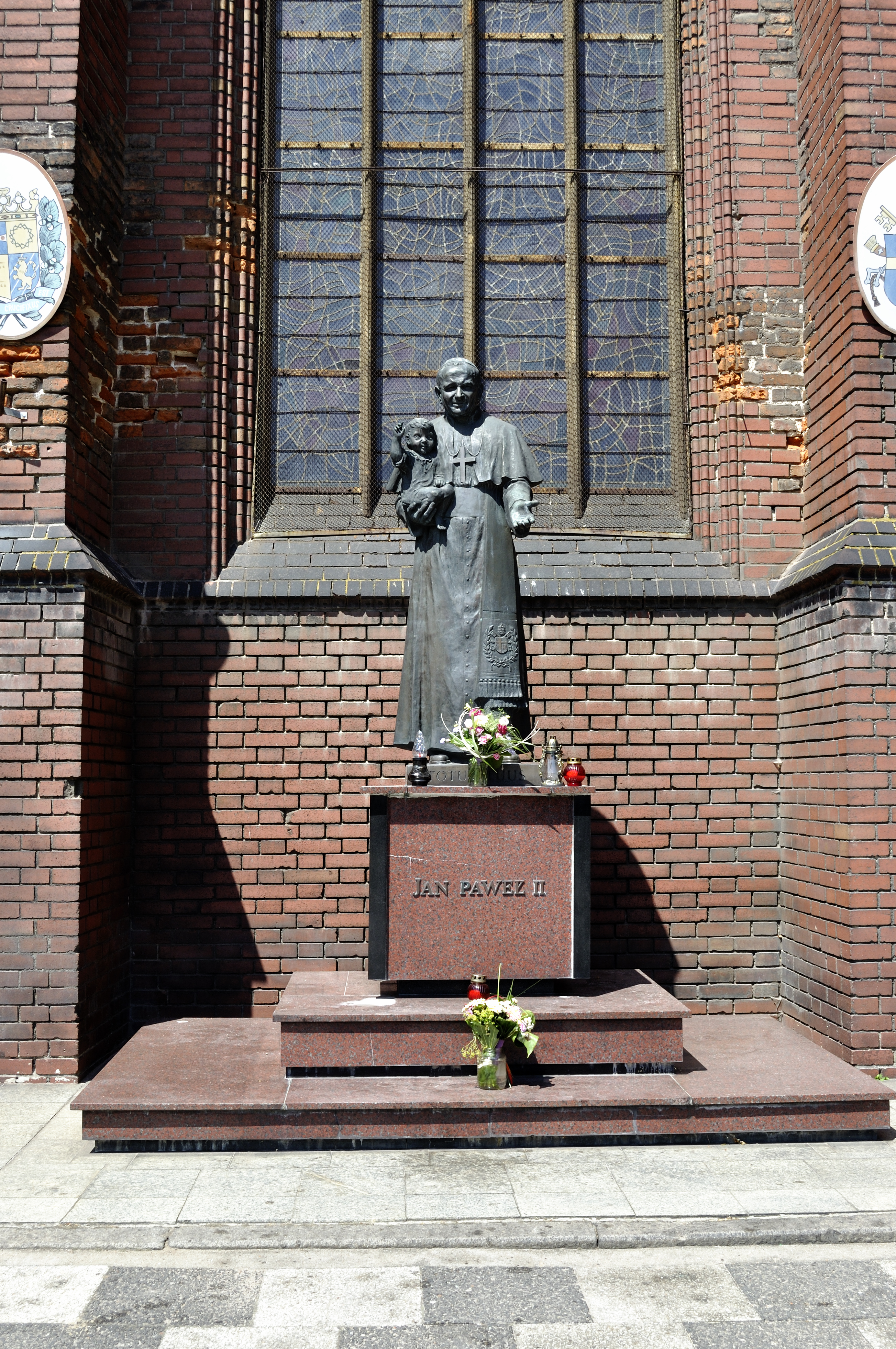 Picture taken in Gdańsk after Wikimania 2010 conference.